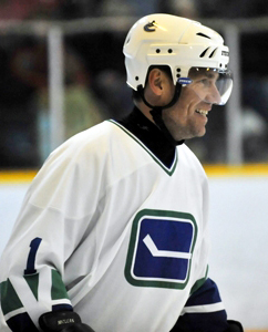 Retired Vancouver Canucks goaltender Kirk McLean with the Canucks alumni at a charity game in Smithers, British Columbia, in 2009. ( Full album here